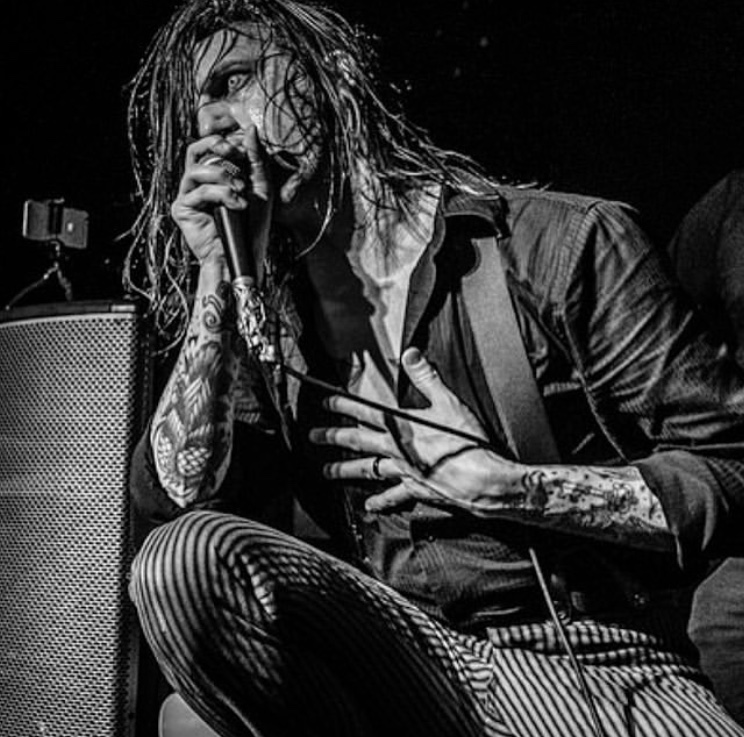 Savage Mouintain Punk Fest. Frostburg, MD. Aug. 2018.